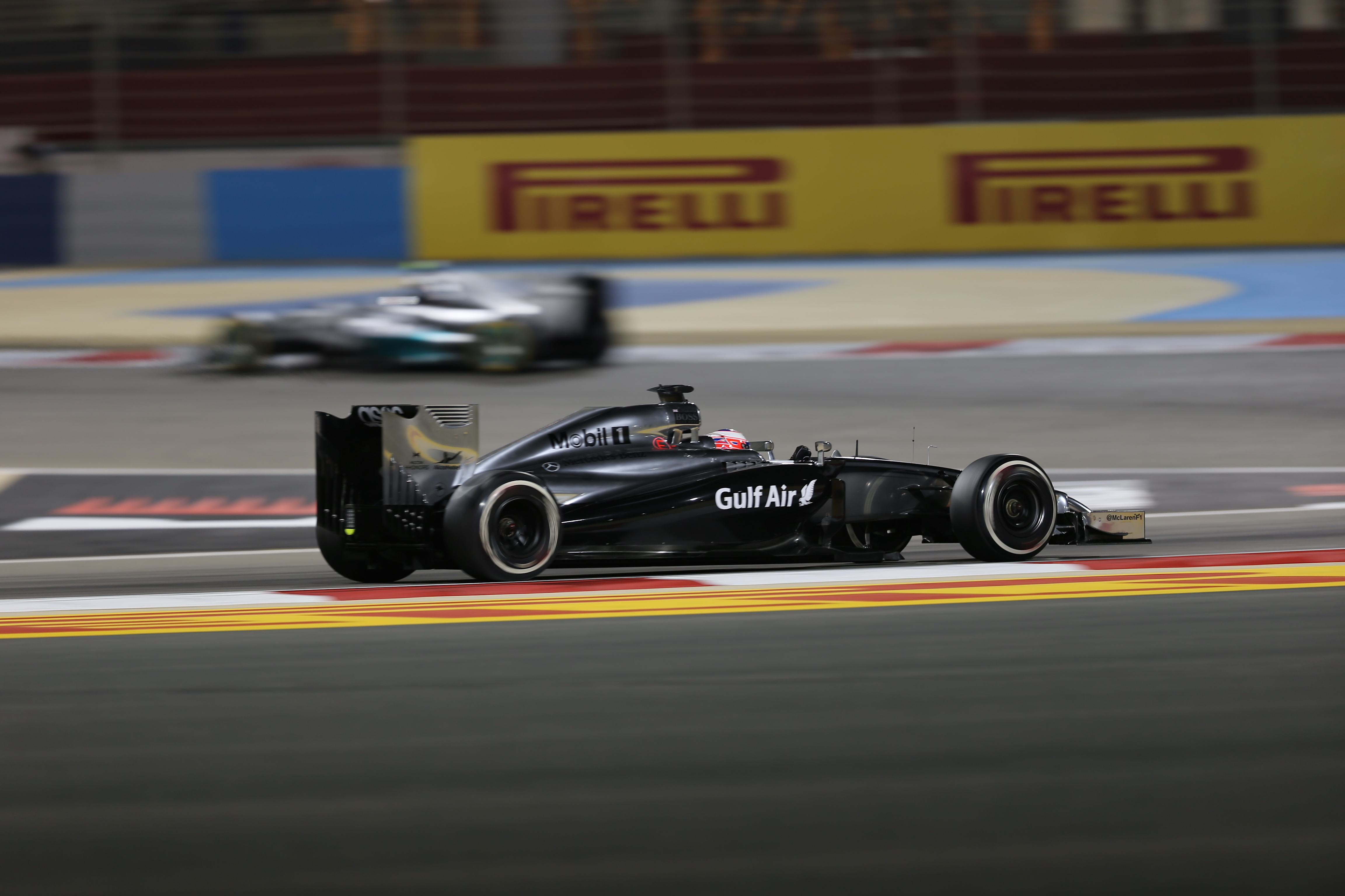 Jenson Button in McLaren MP4-29 at the 2014 Bahrain Grand Prix